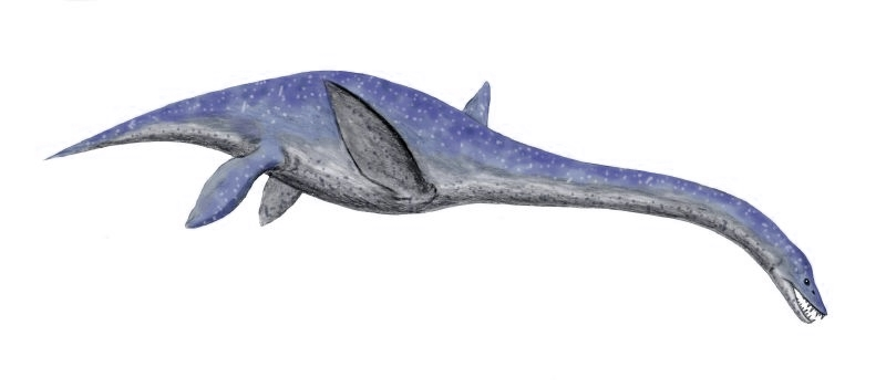 Libonectes morgani, a plesiosaur from the Late Cretaceous of Texas, pencil drawing